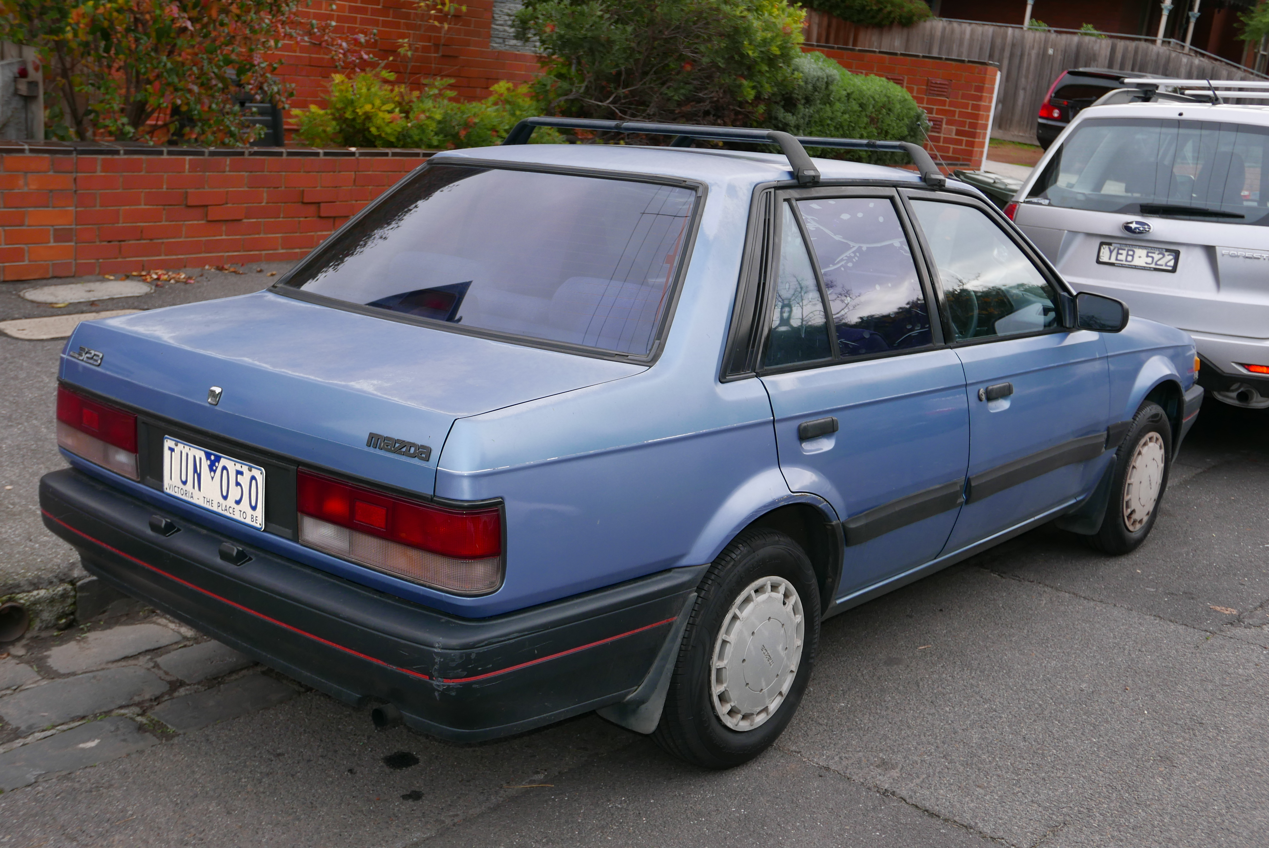 1988 Mazda 323 (BF Series 2) Super Deluxe sedan. Photographed in Fitzroy North, Victoria, Australia. Vehicle registration enquiry results Jurisdiction Victoria Registration TUN050 Chassis code BF1062104655 Engine code B6866491 Compliance date 1988-08 Year of manufacture 1988